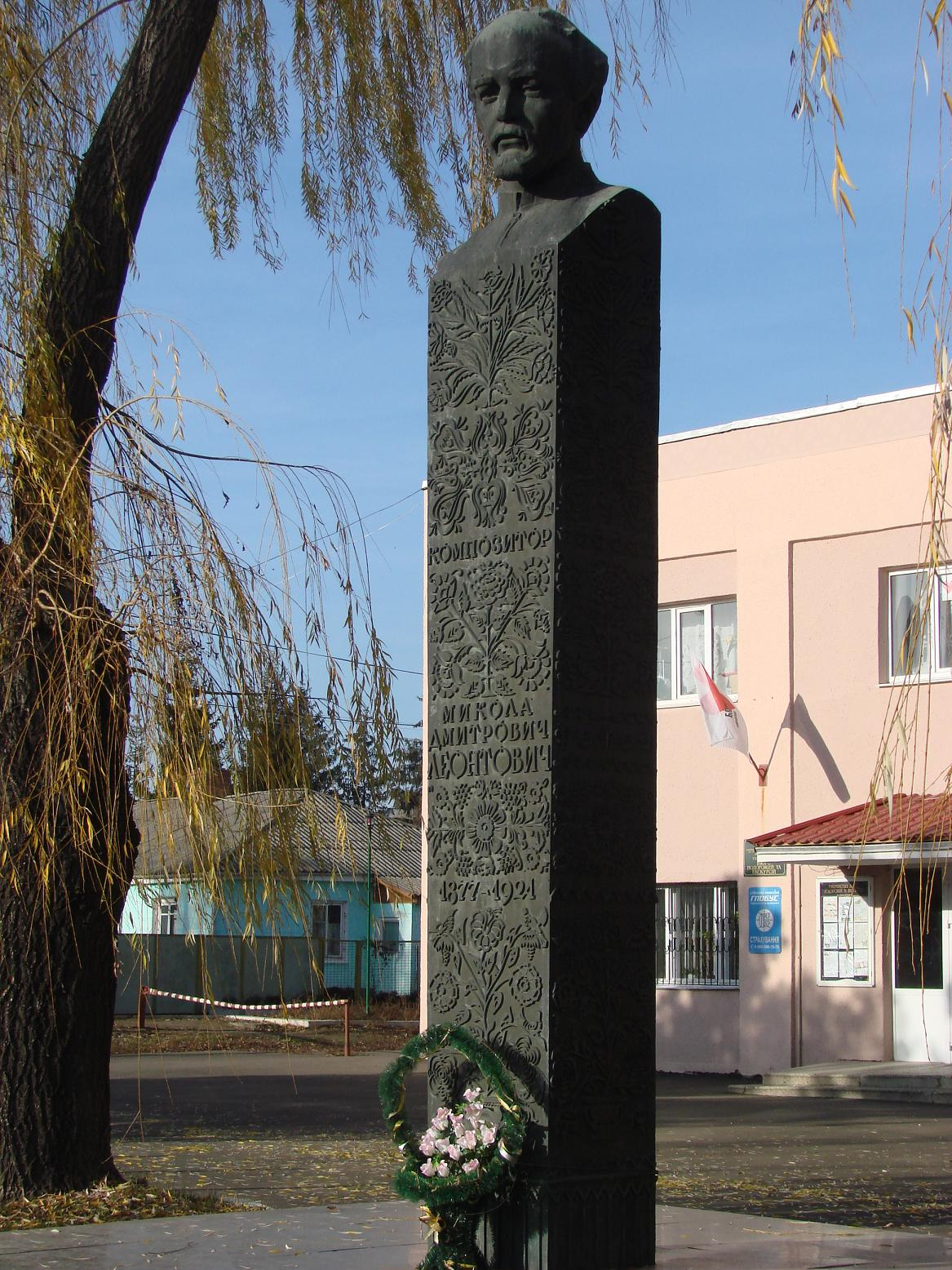 The memorial of Mykola Leontovych in Tulchyn town